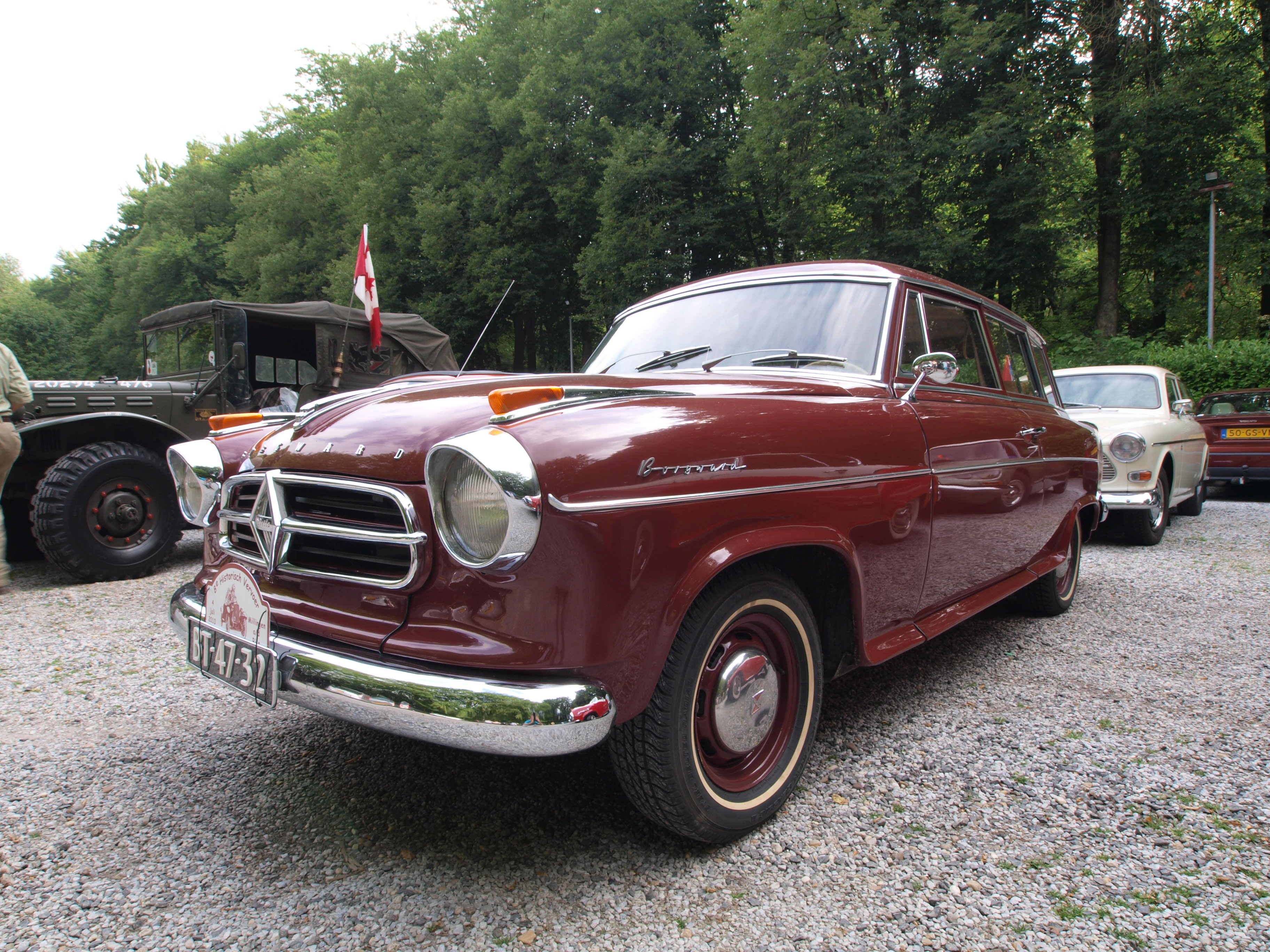 1960 Borgward H1500 Isabella